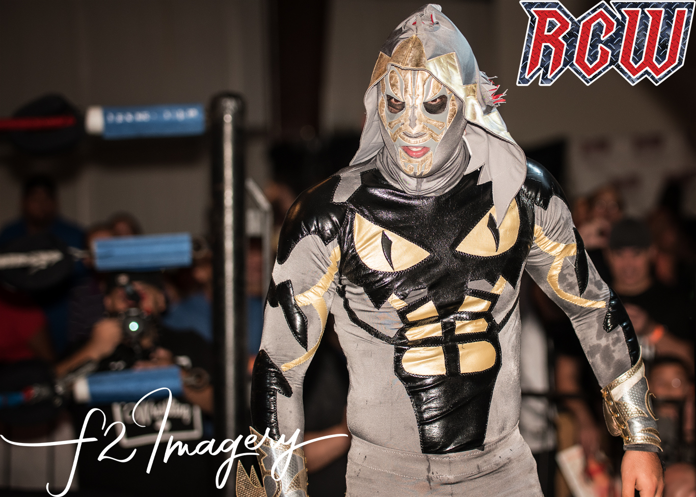 El luchador Hijo de LA Park